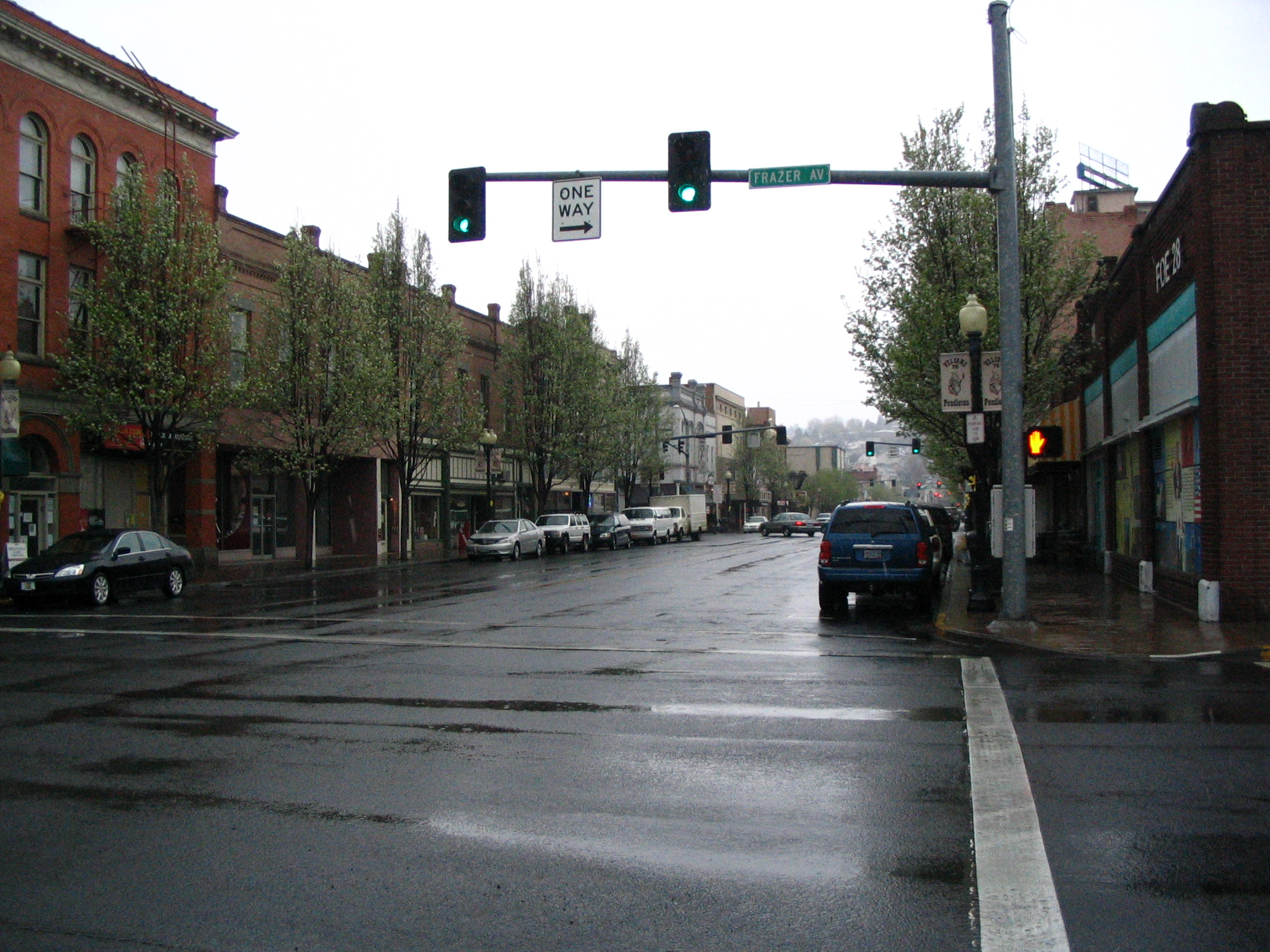 View north along Main Street in downtown Pendleton, Oregon, United States, within the South Main Street Commercial Historic District.